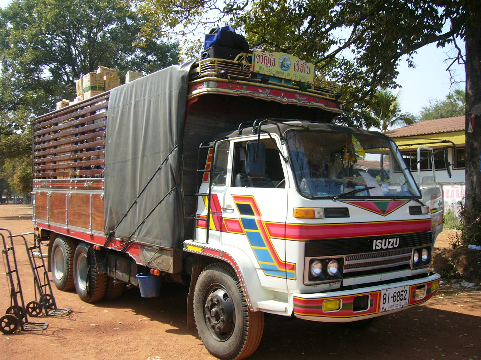 Isuzu Commercial Truck (front), seen in Si Songkhram, Nakhon Phanom province, Thailand.